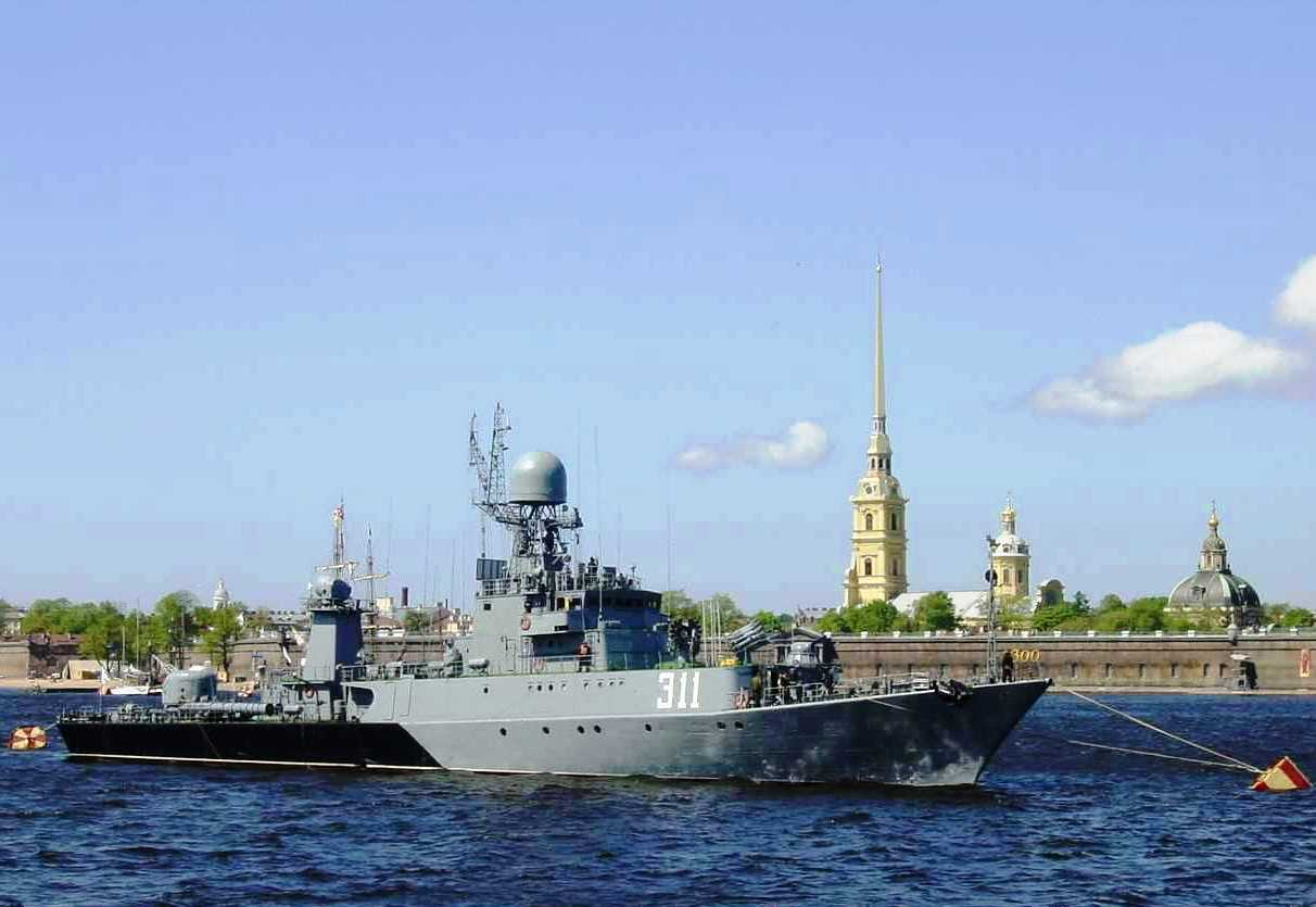 Russian Parchim class corvette Kazanets